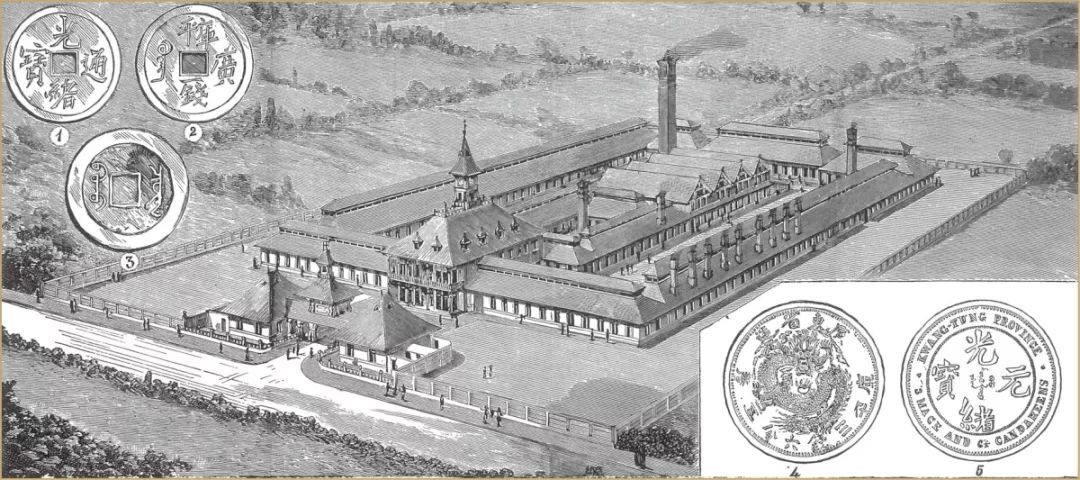 Drawing of the Canton Mint (also known as Kwangtung Mint) located in Canton, China Circa 1888